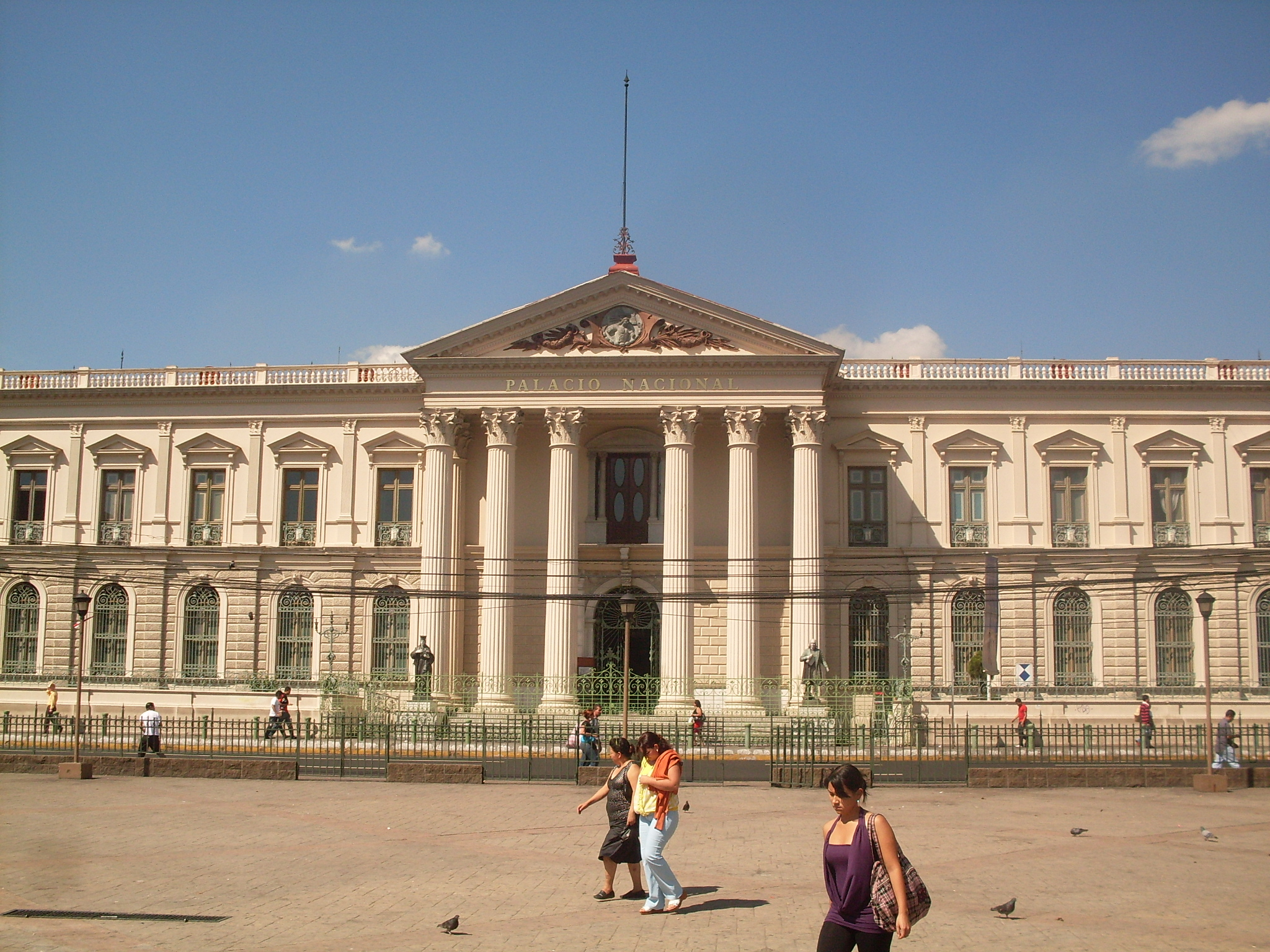 National Palace of El Salvador is located in the Historic Center of the City of San Salvador.